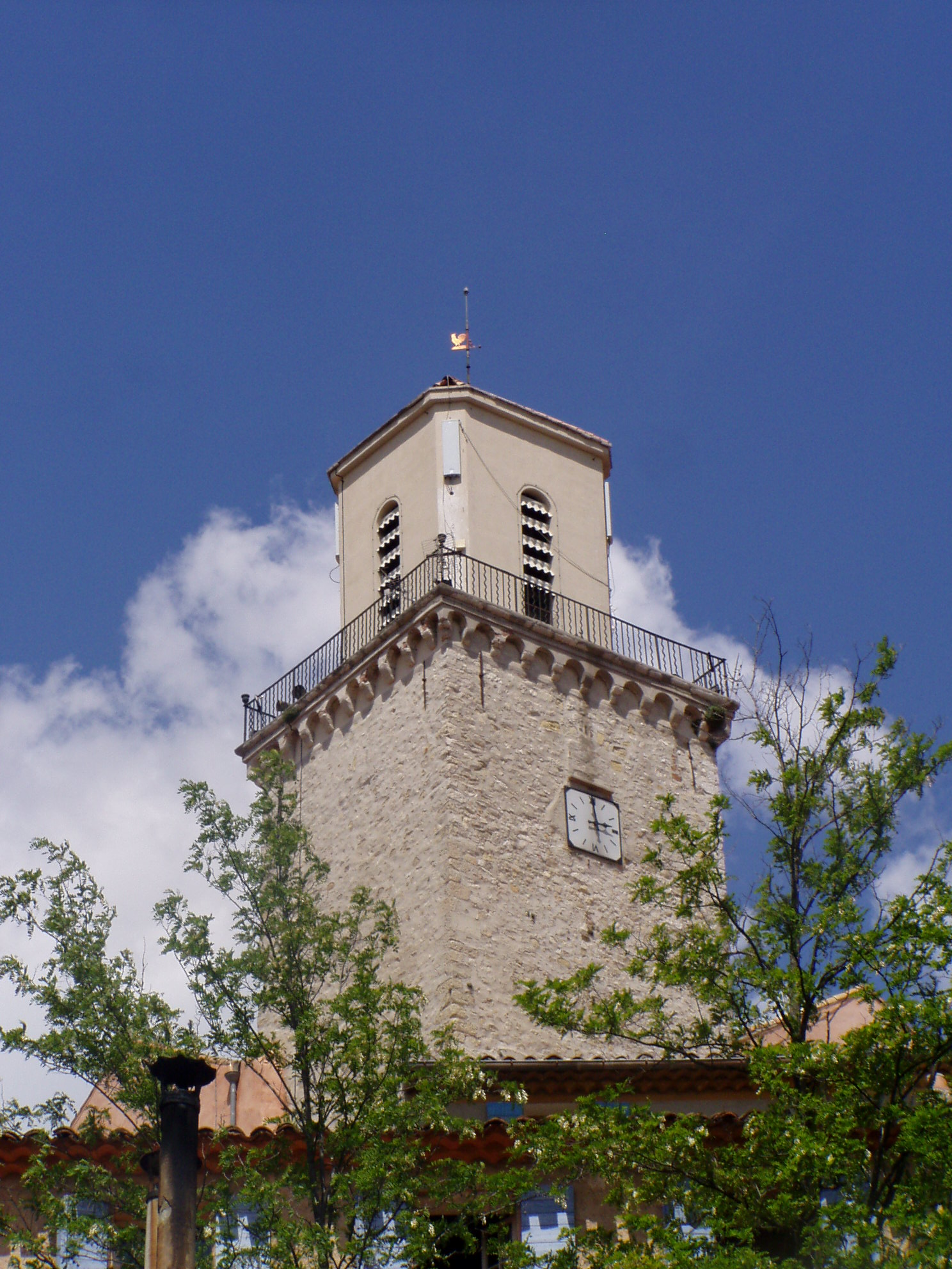 The bell tower of the Church of Fuveau